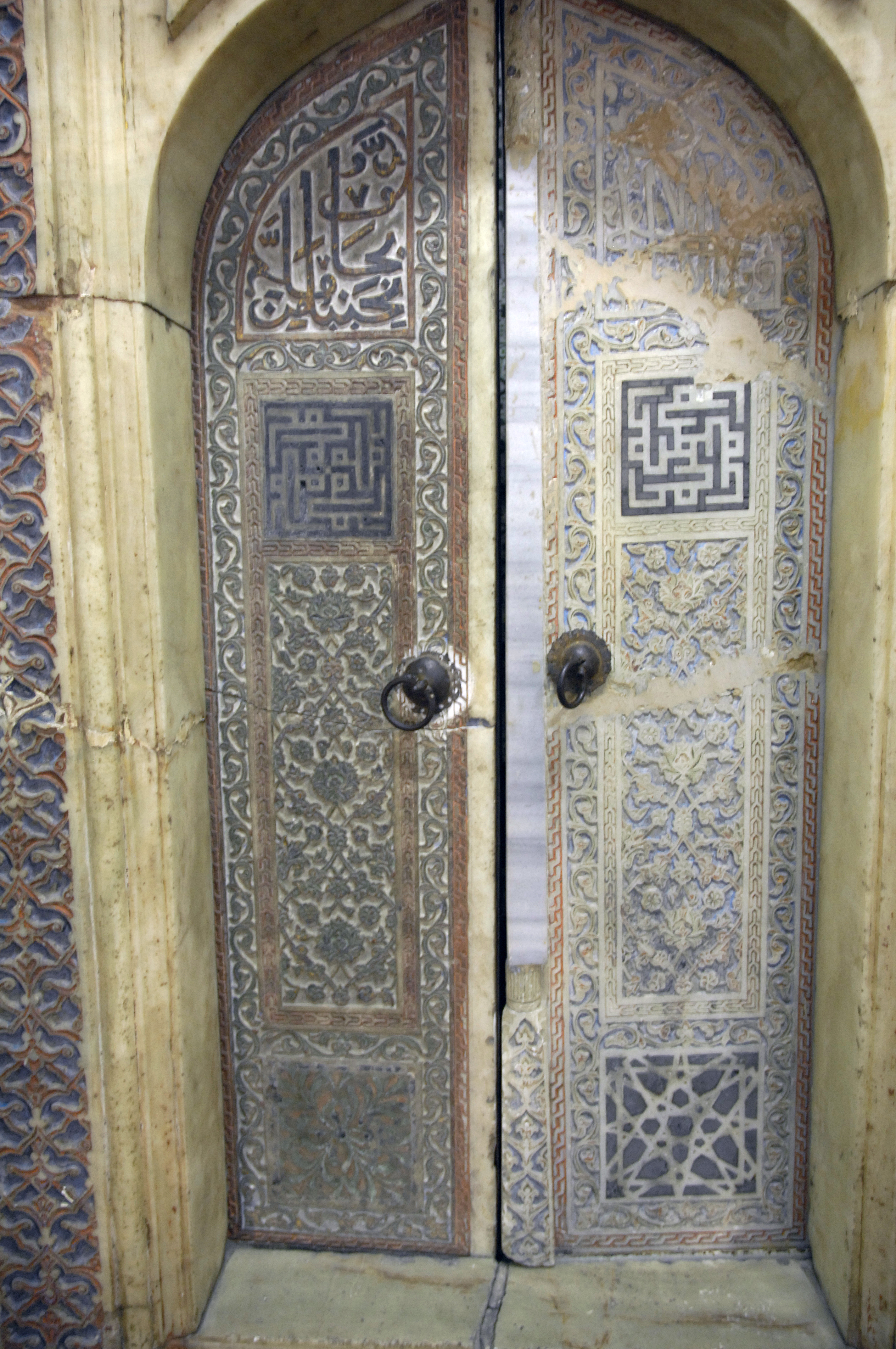 The Fatih Paşa Mosque was founded by Bıyıkıı Mehmet Paşa in 1522, Sultan Selim I’s warrior who conquered the town for the Ottomans and became4 its first governor. It has 8 domes and its walls are covered in fine faïence. In 2014 I found the entrance to a small yard with a türbe (burial monument) opened, though I do not quite know who was buried there. There is another grave elsewhere in the courtyard of the mosque which I took to be the founders grave.